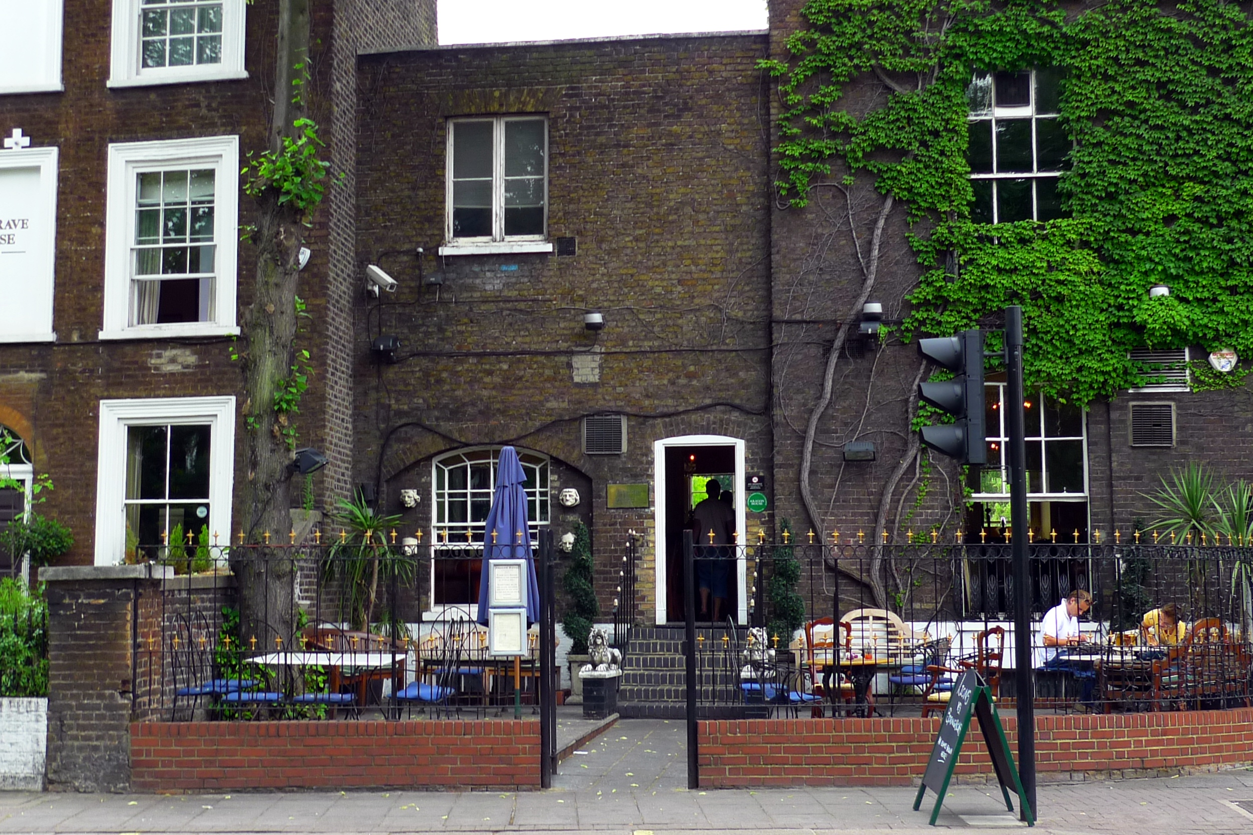 A bar at the side of Parsons Green. Address: 247 New Kings Road. Owner: (website). Links: Beer in the Evening Qype